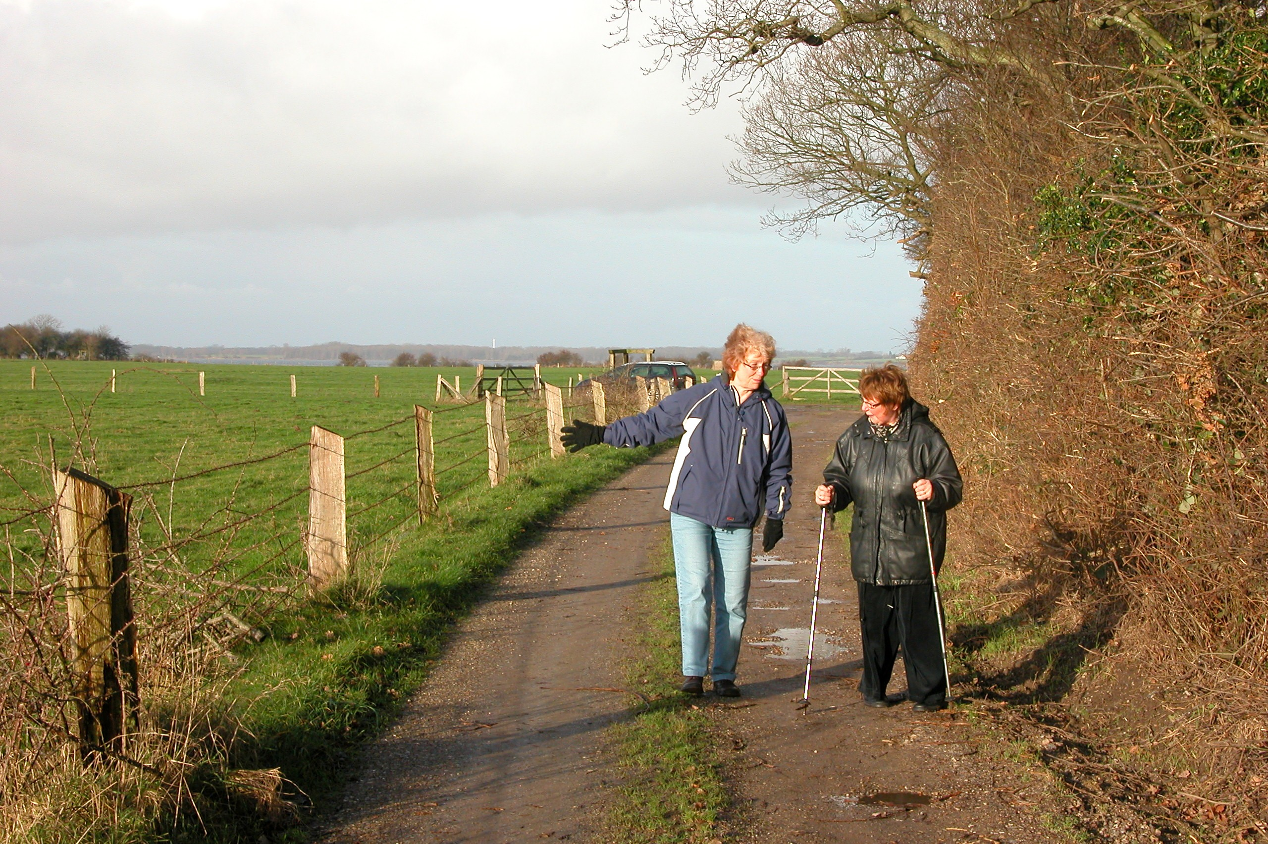 Arnkil, Als, north of Sonderburg, Denmark